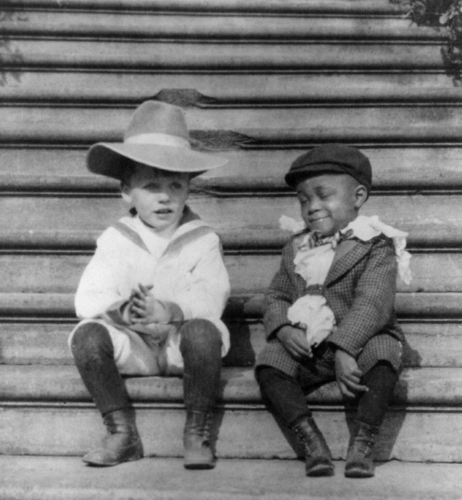 Quentin Roosevelt, son of US 26th President, Theodore Roosevelt, and one of his "White House Gang" playmates, Roswell Newcomb Pinckney. The White House Gang was made up of the young companions of the Roosevelt children who wreaked havoc on White House decorum, shooting spit balls at a portrait of Andrew Jackson, "Old Hickory," wearing fake monocles to the dismay of the French ambassador who dropped his own into his tea upon seeing, the boys and a host of other childhood pranks that caught the attention of the press and the American people throughout Theodore Roosevelt's seven years in the White House. The Gang did not discriminate on the basis of race, national origin, or age, as the President was allowed to be an honorary member.